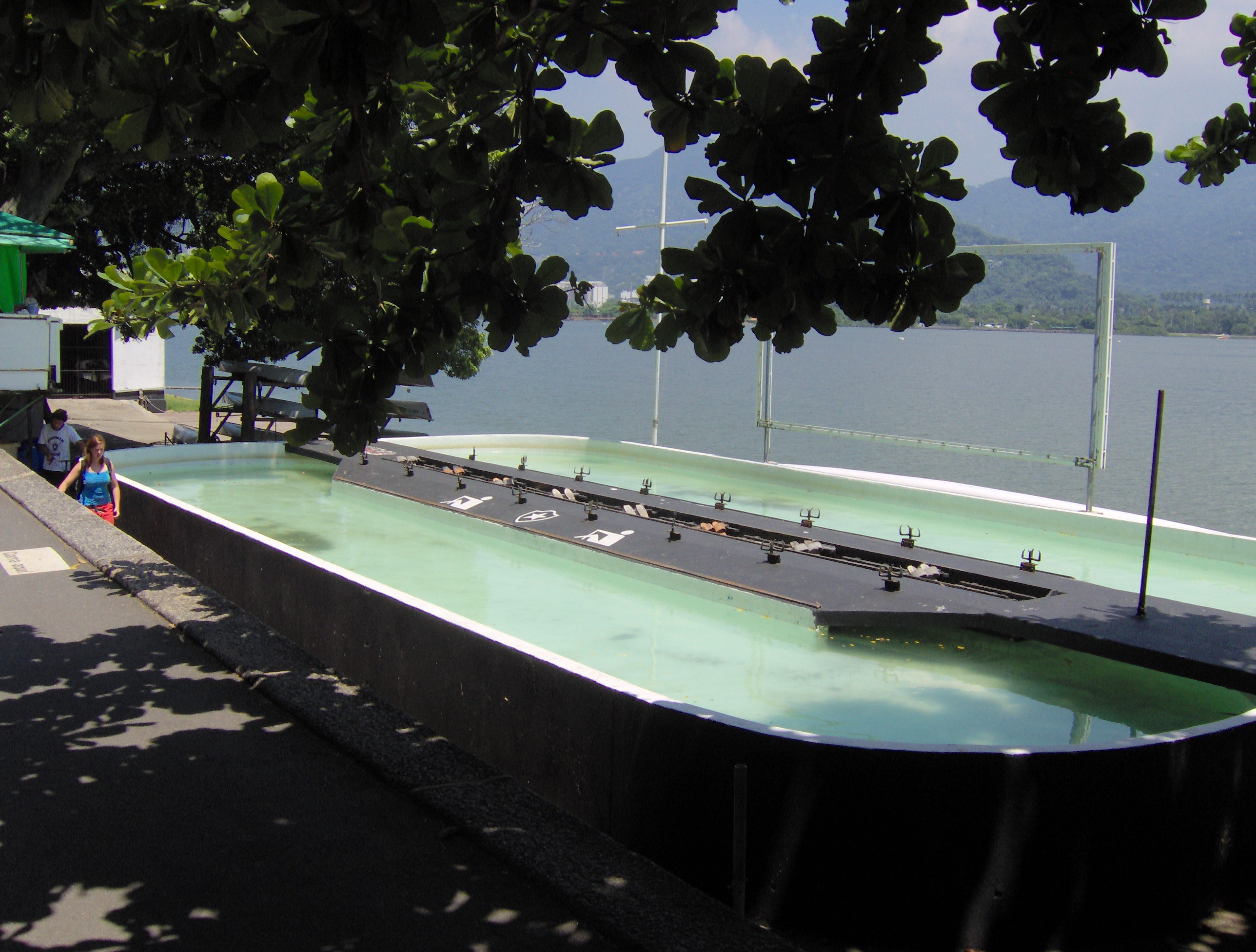 Fixed rowing training tank at the headquarters of the Botafogo Football and rowing club at Lagoa Rodrigo de Freitas in Rio de Janeiro, Brazil.